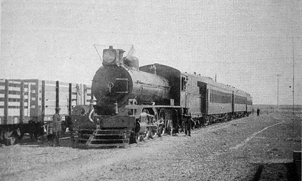 Passenger train with a steam locomotive in Las Heras, Santa Cruz Province. The line was the Puerto Deseado-Colonia Las Heras Railway.